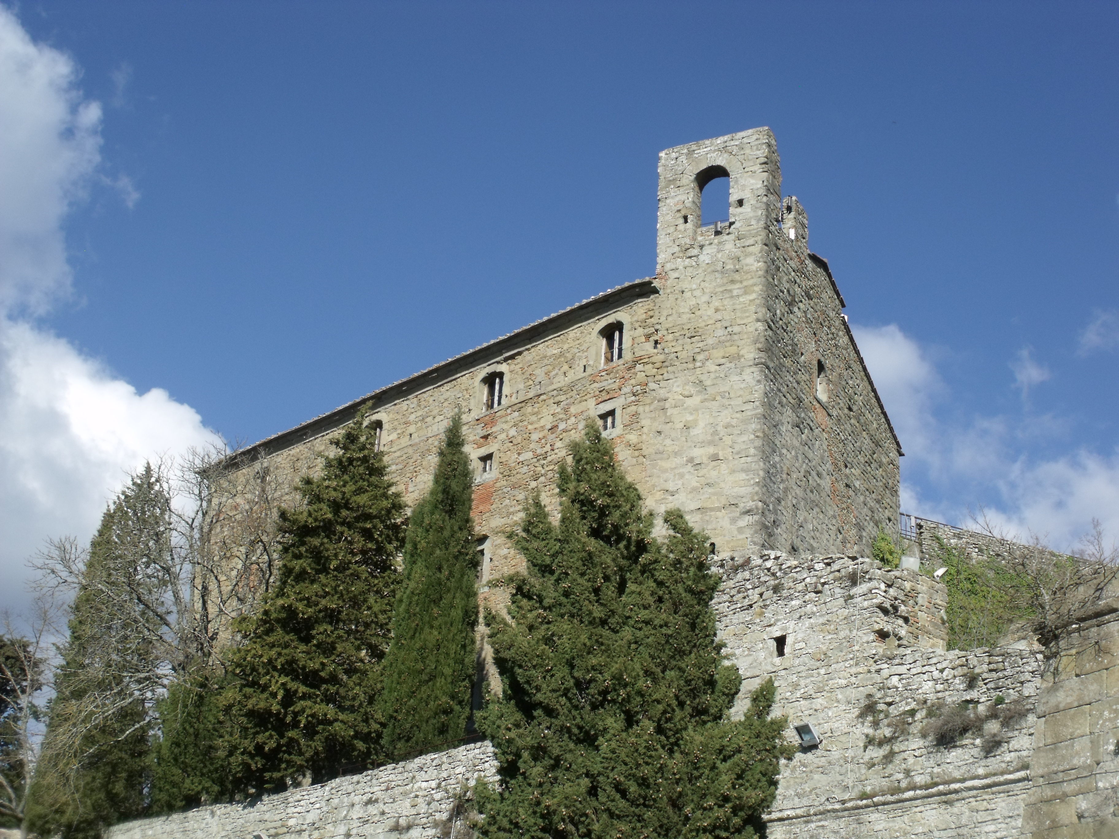 Fortress Fortezza del Girifalco (Fortezza Medicea del Girifalco) in Cortona, Valdichiana, Province of Arezzo, Tuscany, Italy